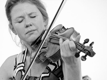 Line Kruse